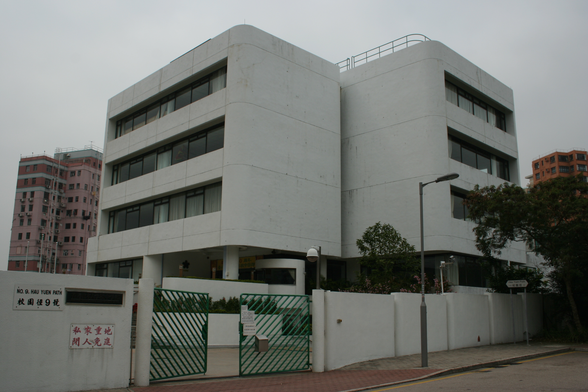 Hong Kong Japanese School Junior Secondary Section, in Hau Yuen Path, North Point, Hong Kong Island, Hong Kong Special Administrative Region, People's Republic of China